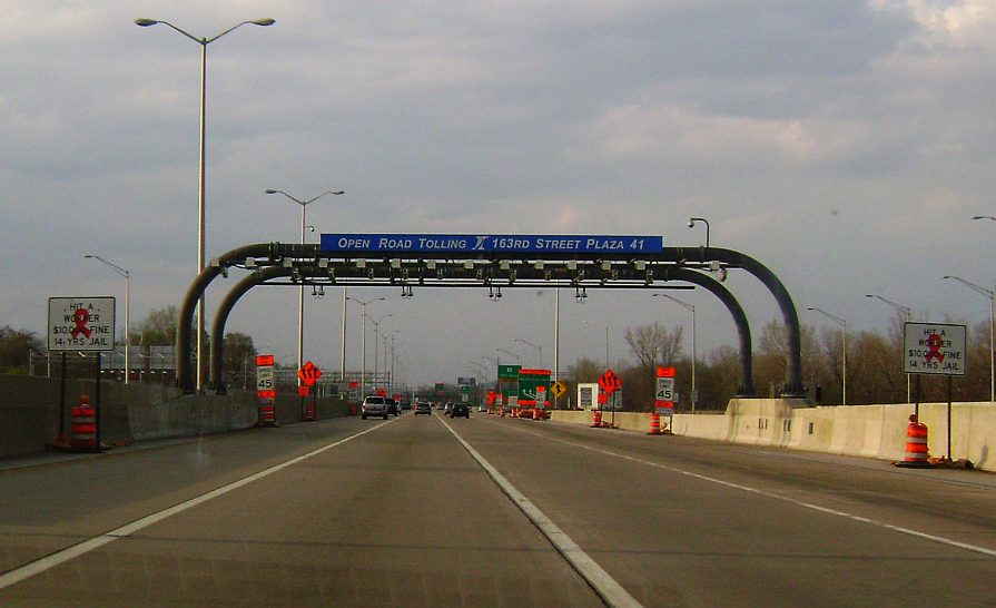 The open road tolling lanes of the West 163rd Street toll plaza, going northbound on the Tri-State Tollway near Hazel Crest, Illinois